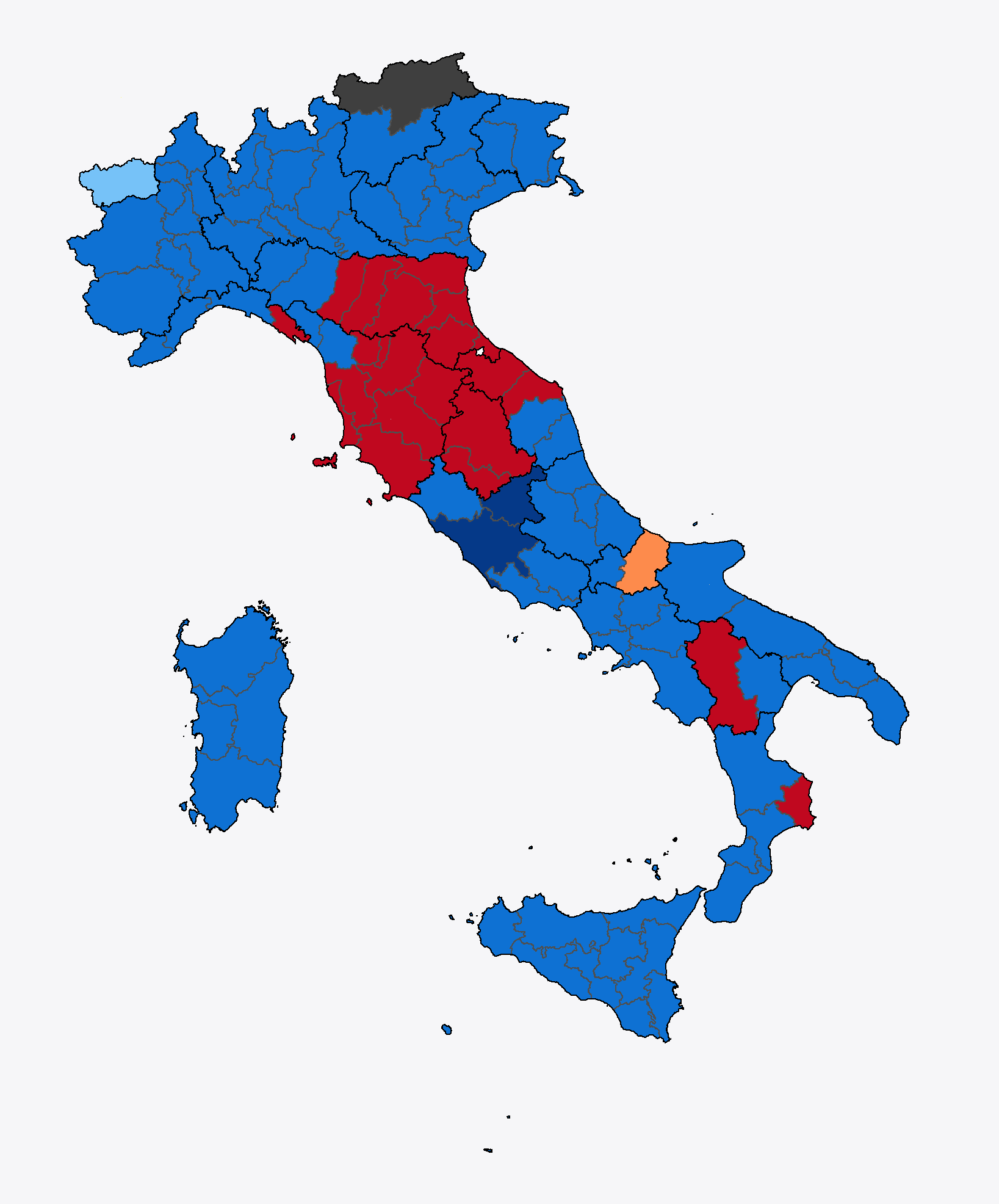 Europe